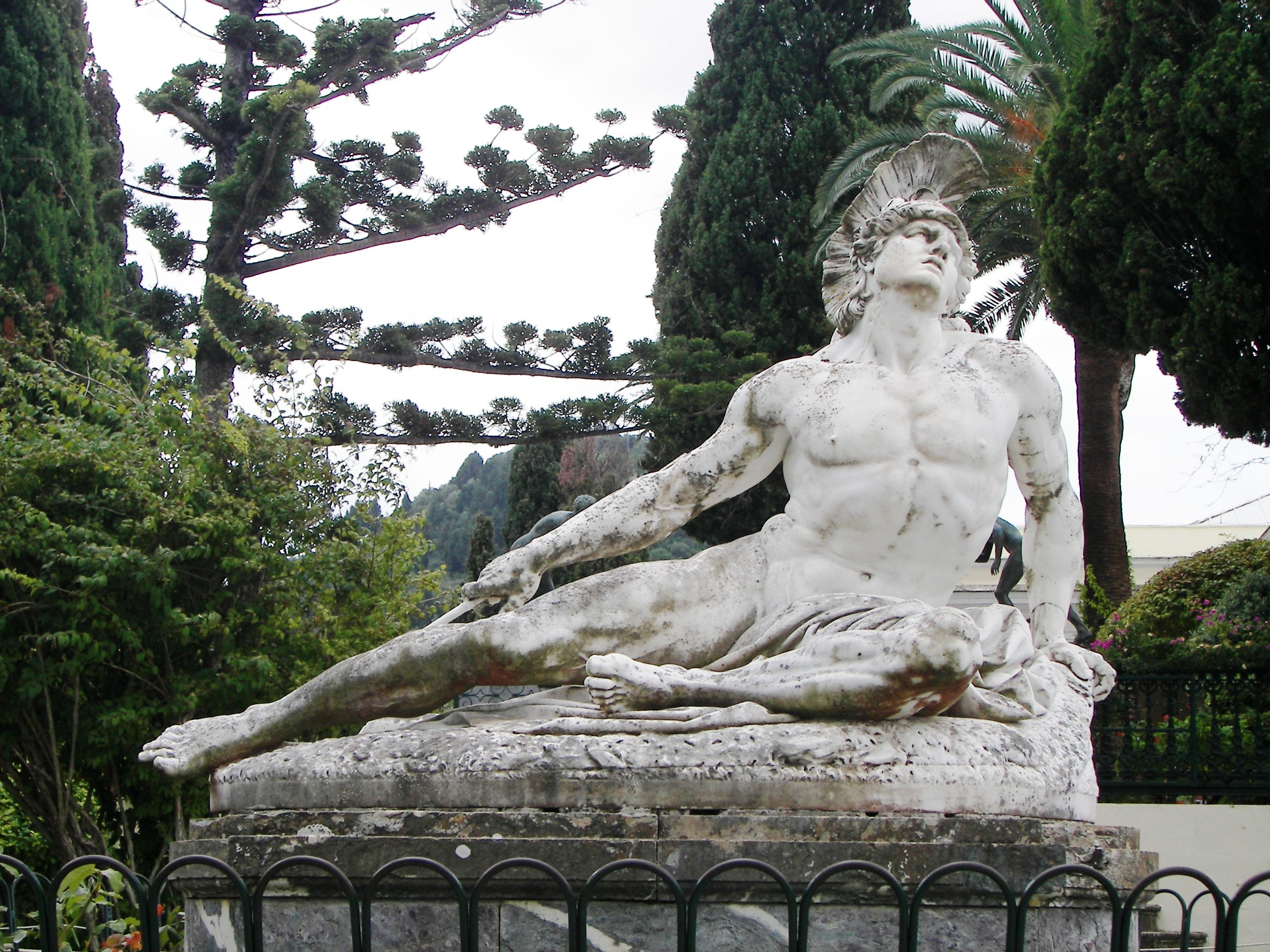 Closeup of Achilles thniskon in Corfu Achilleion autocorrected